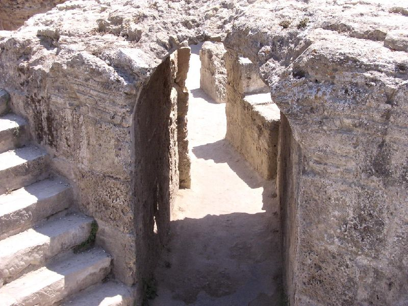 Antonine baths ruins.